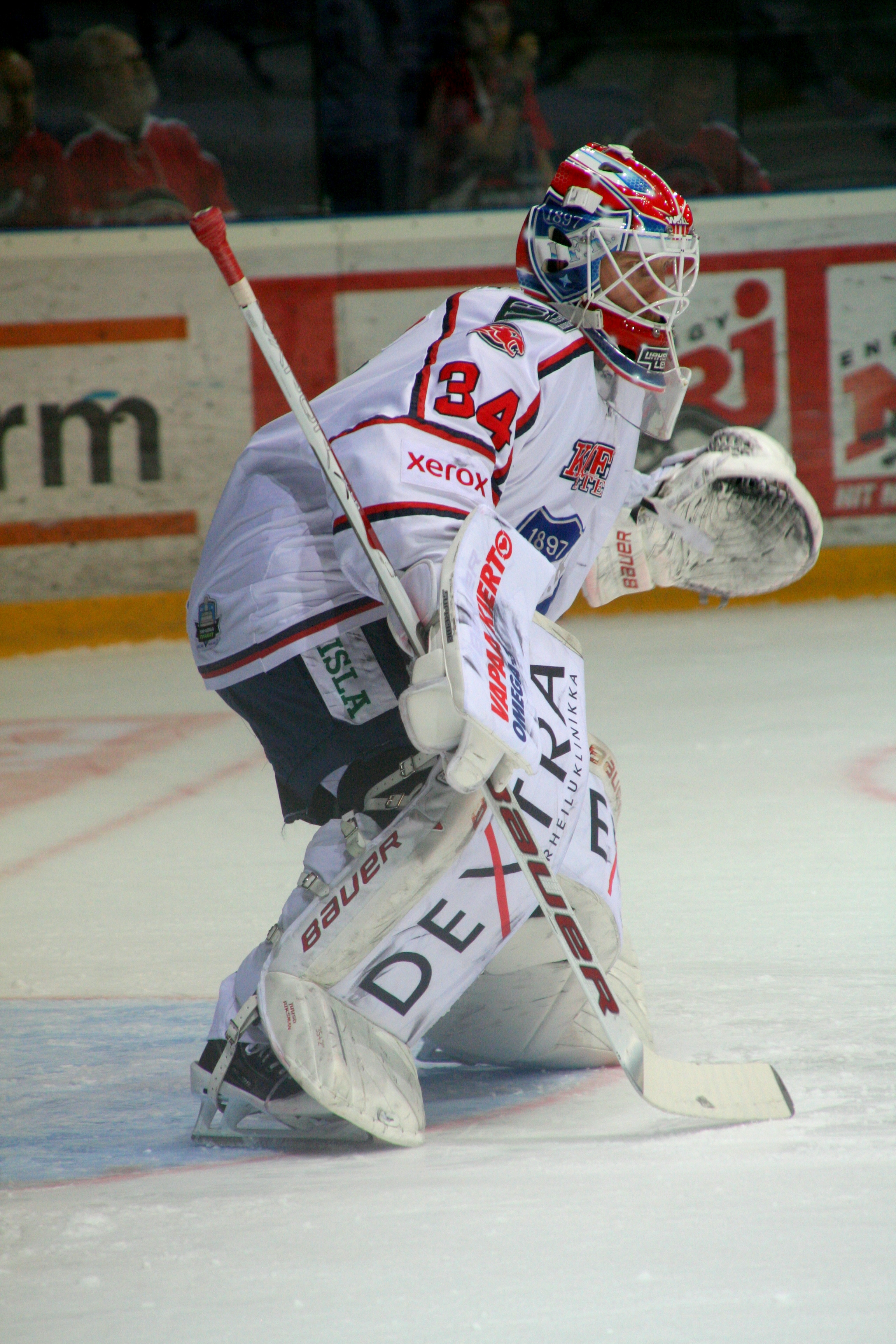 Ice Hockey Team Helsingin IFK's Goaltender #34 Juuso Riksman